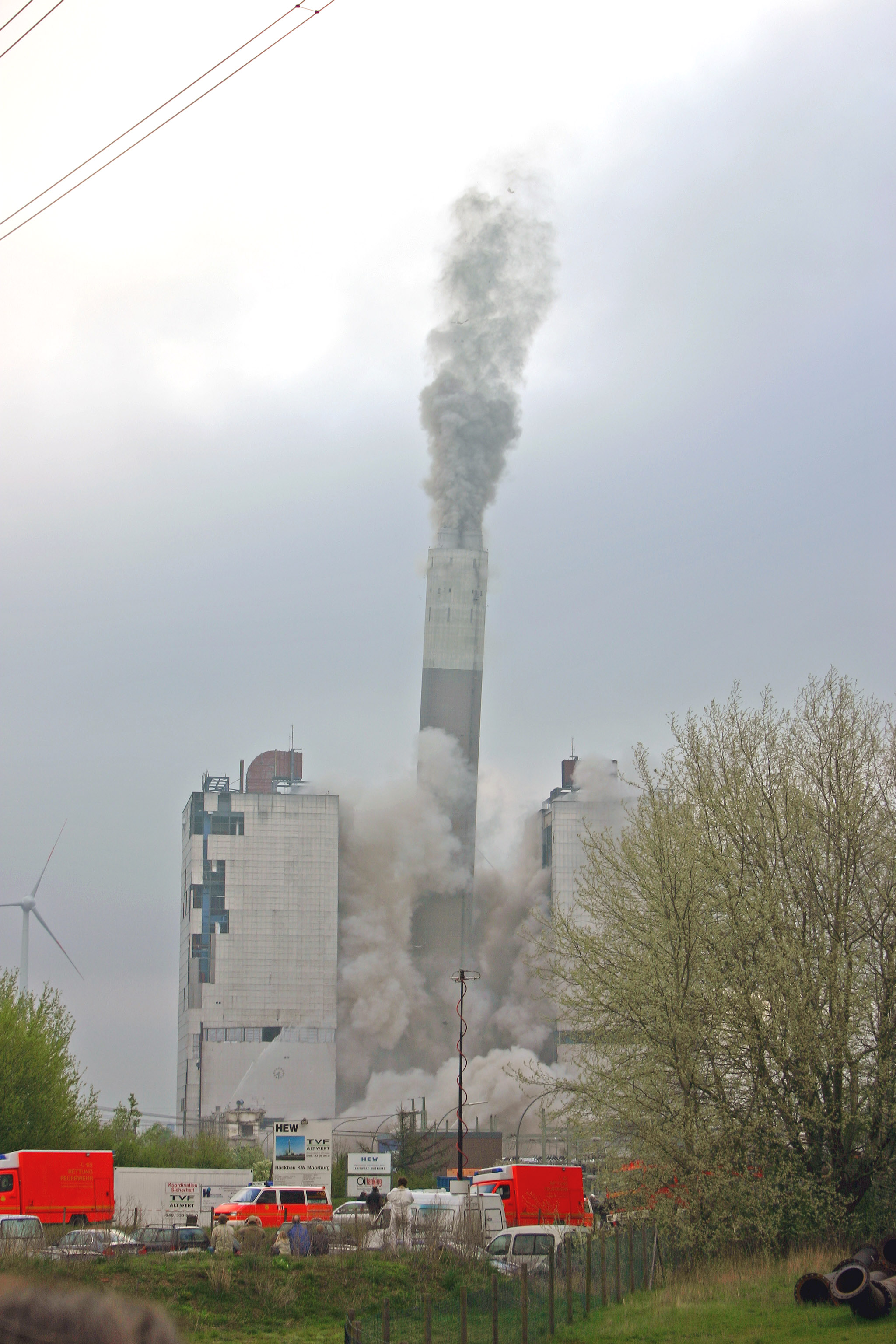 Bursting of the 256 meters high chimney of the deactivated HEW power station in Hamburg-Moorburg, Germany. The chimney was Hamburg's highest massiv building.